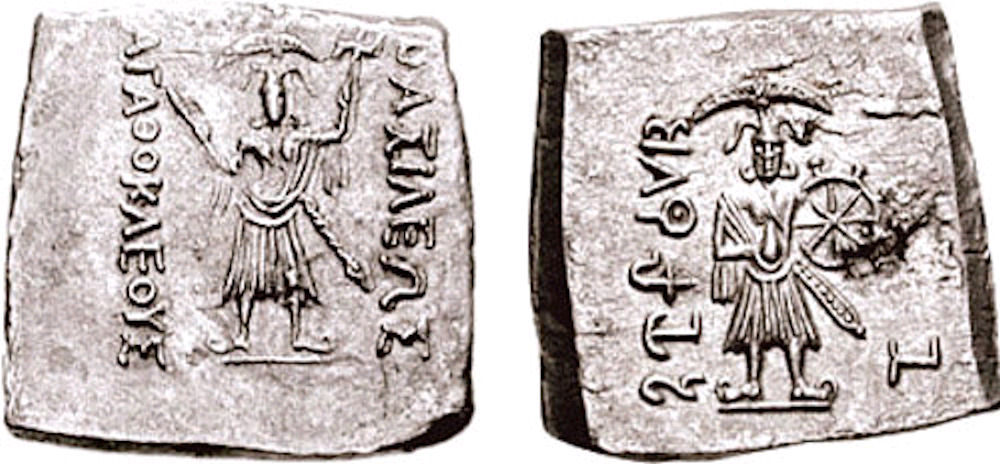 Coin of the Baktrian King Agathokles, written in Brahmi language. The coin shows Hindu deities: Vasudeva-Krishna and Balarama-Samkarshana. Another, sharper, view of the same collection